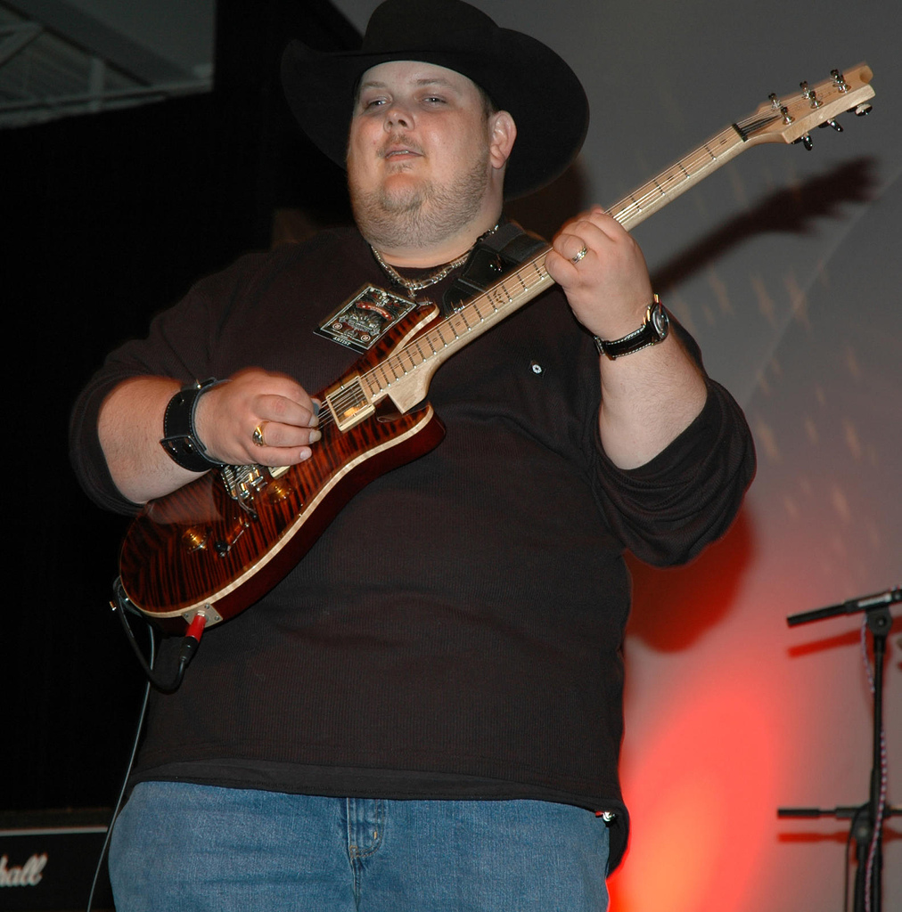 Johnny Hiland is a talented guitarist from Woodland, Maine.